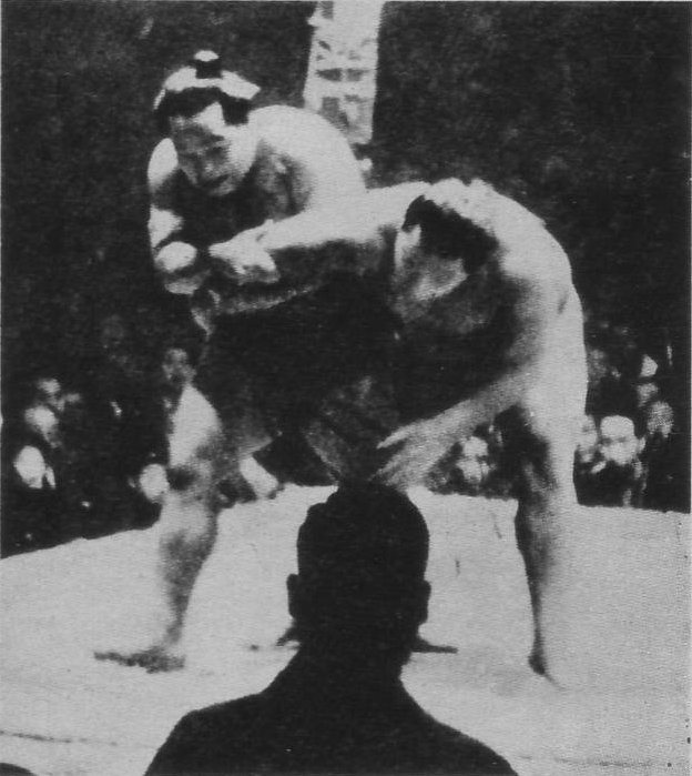 Itsutsushima Narao (Left) VS Futabayama Sadaji (Right), 1940.